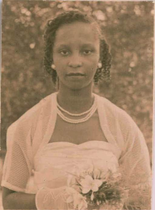 An 18 year old Esther Urey dressed formally for her older sister's graduation from high school